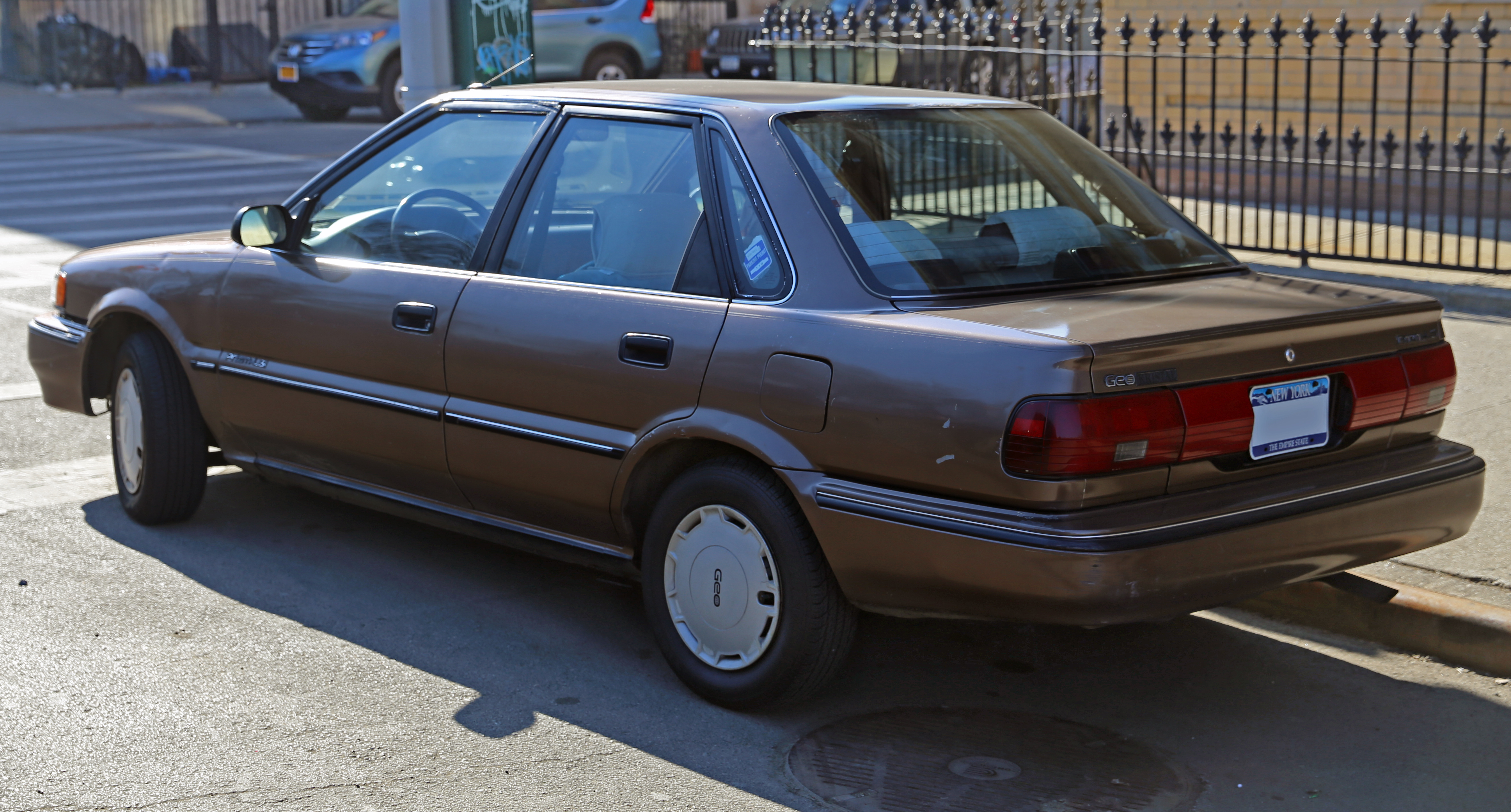 1990 Geo Prizm LSi sedan, rear left 3/4 view.